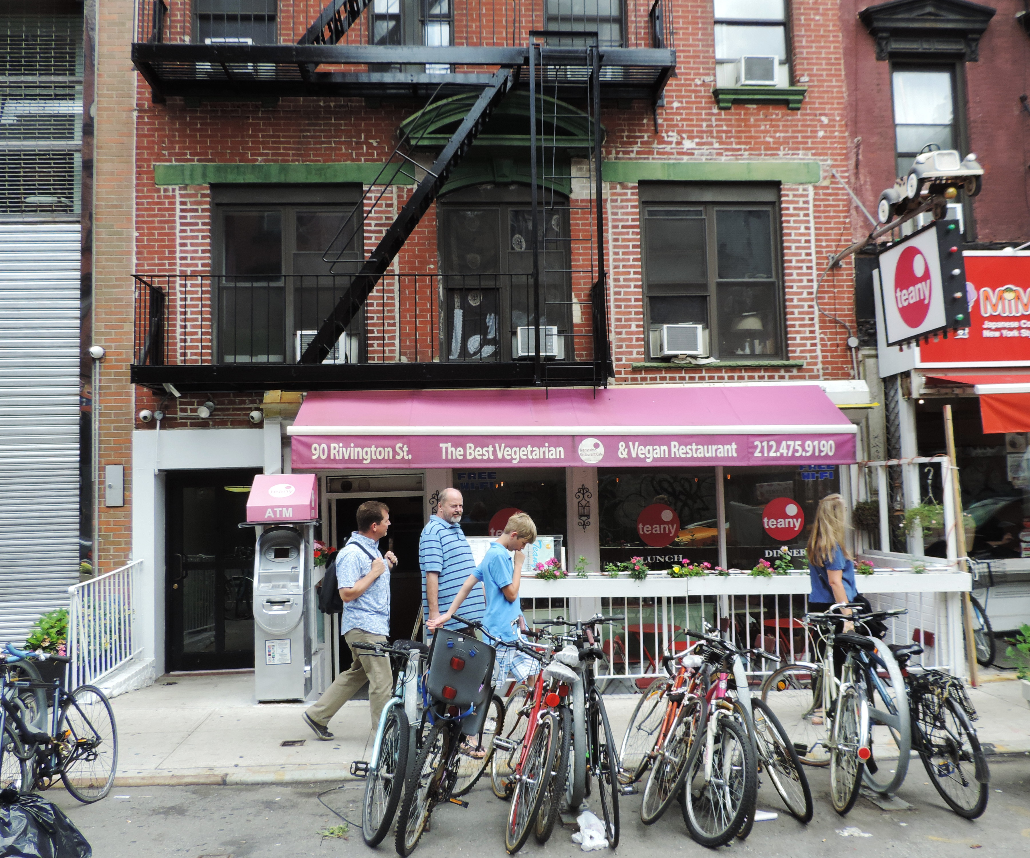 Looking north at restaurant.